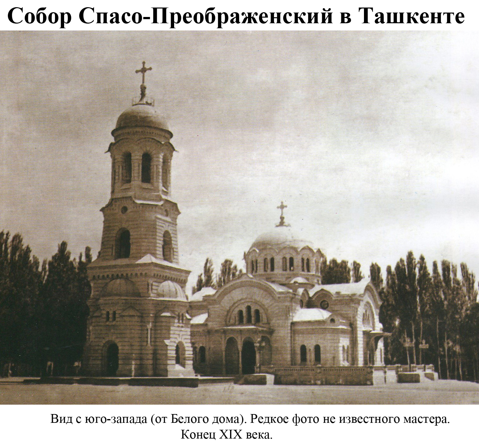 Tashkent Spaso-Preobrazhensky Cathedral military. View from the south-west (the White House). Rare photo not known master. The end of the XIX century.